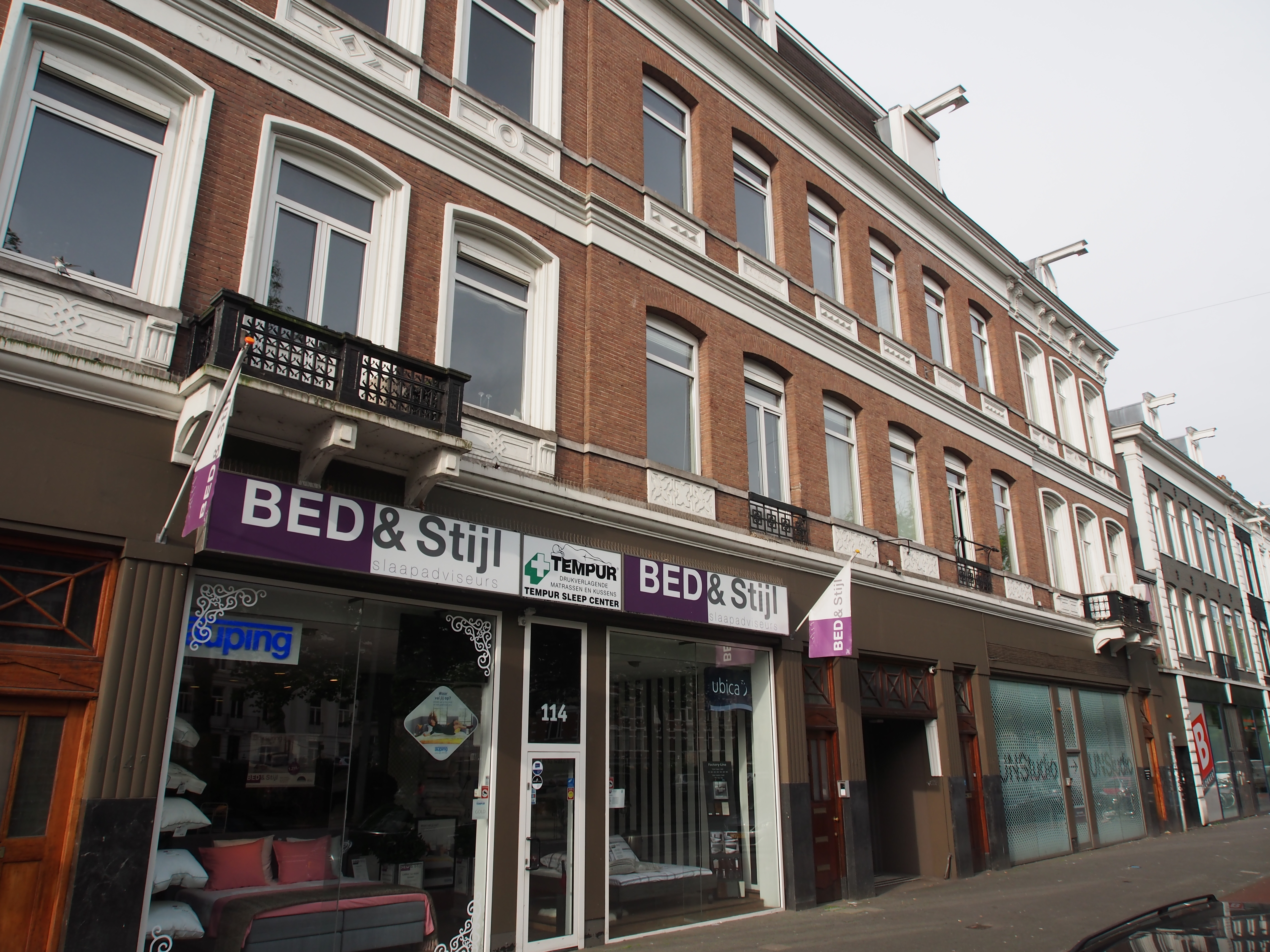 Photographed in Amsterdam.